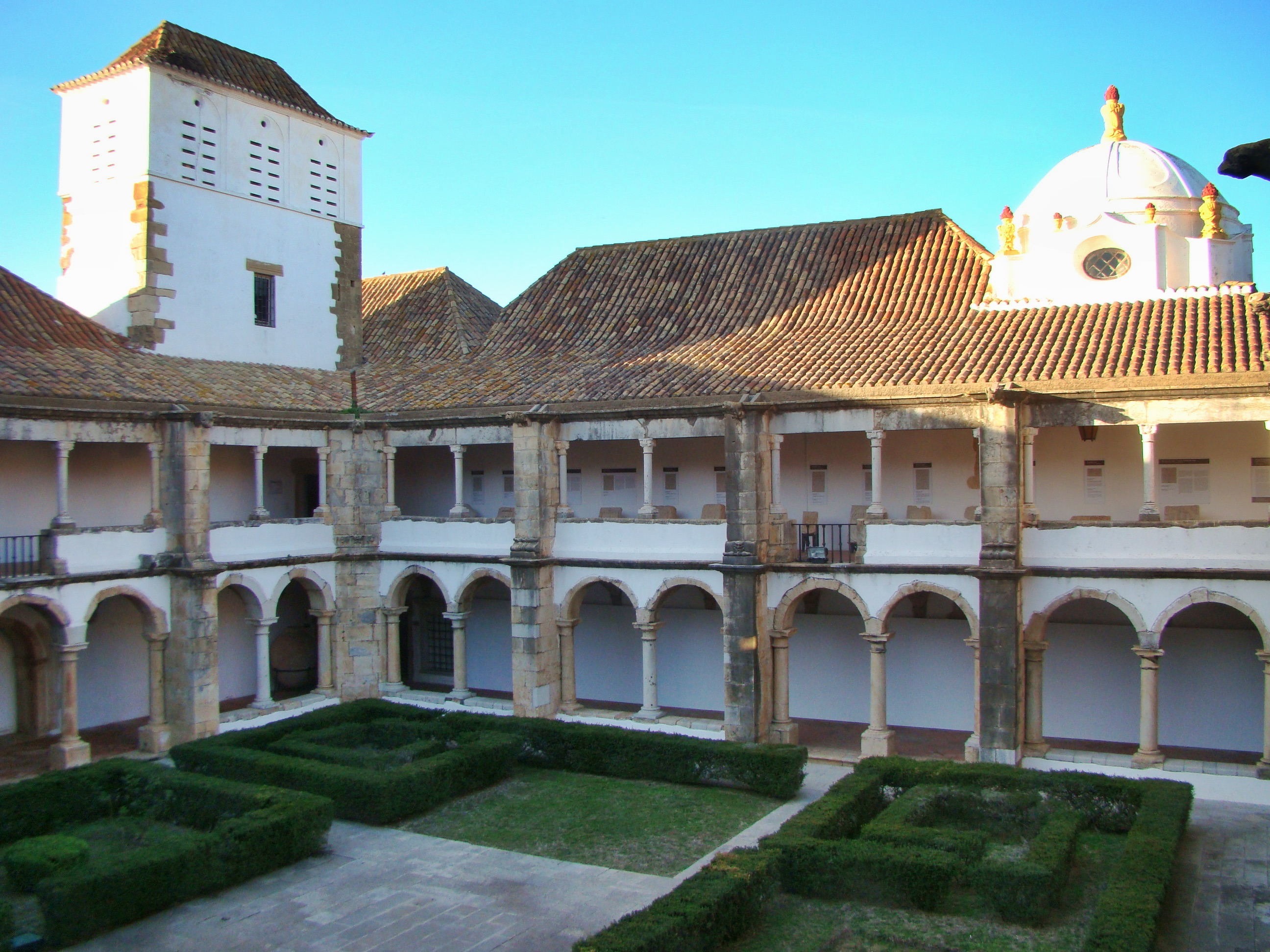 Cloister of the former convent of the order of St. Clare, in the city of Faro, in southern Portugal.